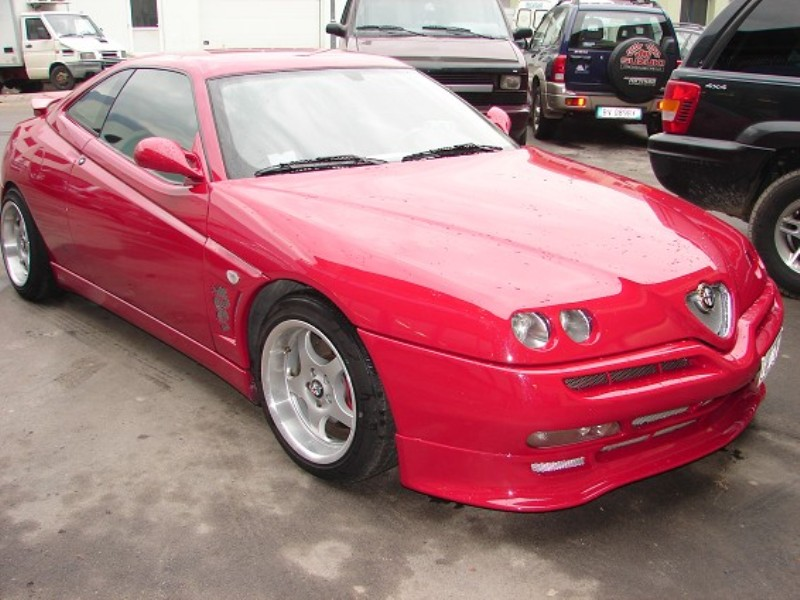 Alfa Romeo GTV Tuning